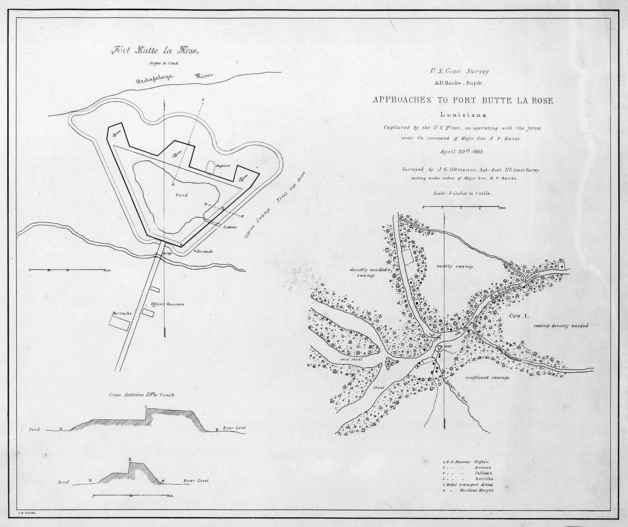 Approaches to Fort Butte La Rose, Louisiana, captured by the U.S. fleet, co-operating with the forces under the command of Major Gen. N. P. Banks. April 20th 1863. Surveyed by J. G. Oltmanns, Sub-asst., U.S. Coast Survey, acting under orders of Major Gen. N. P. Banks. J. W. Maedel.